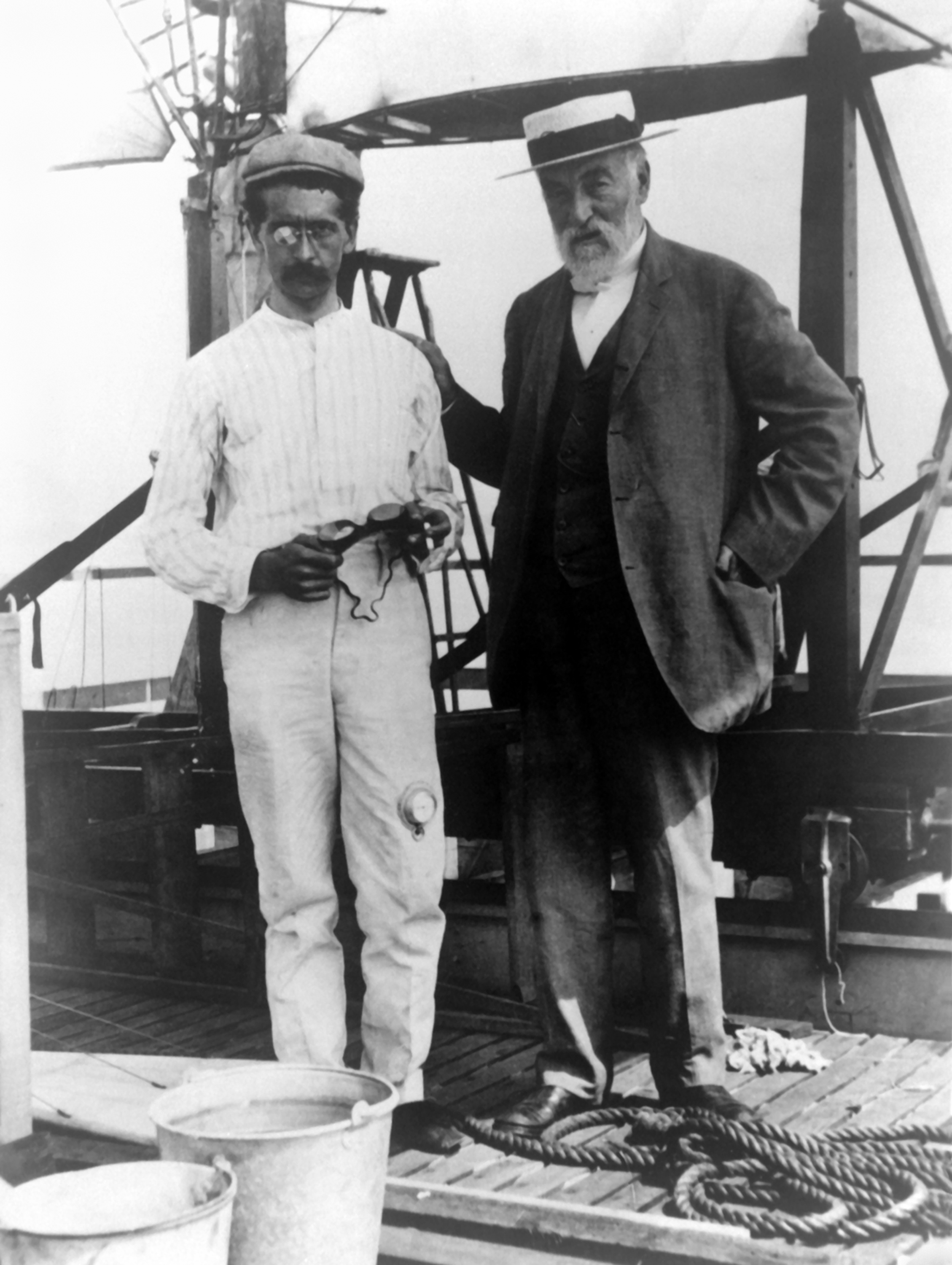 Samuel Pierpont Langley (1834-1906) with chief mechanic and pilot, Charles M. Manly.